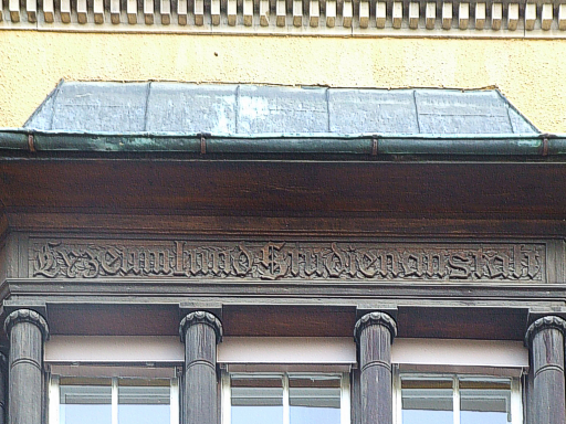 Inscription at the oriel of the lyzeum at Rothenburg street 18 at Berlin-Steglitz